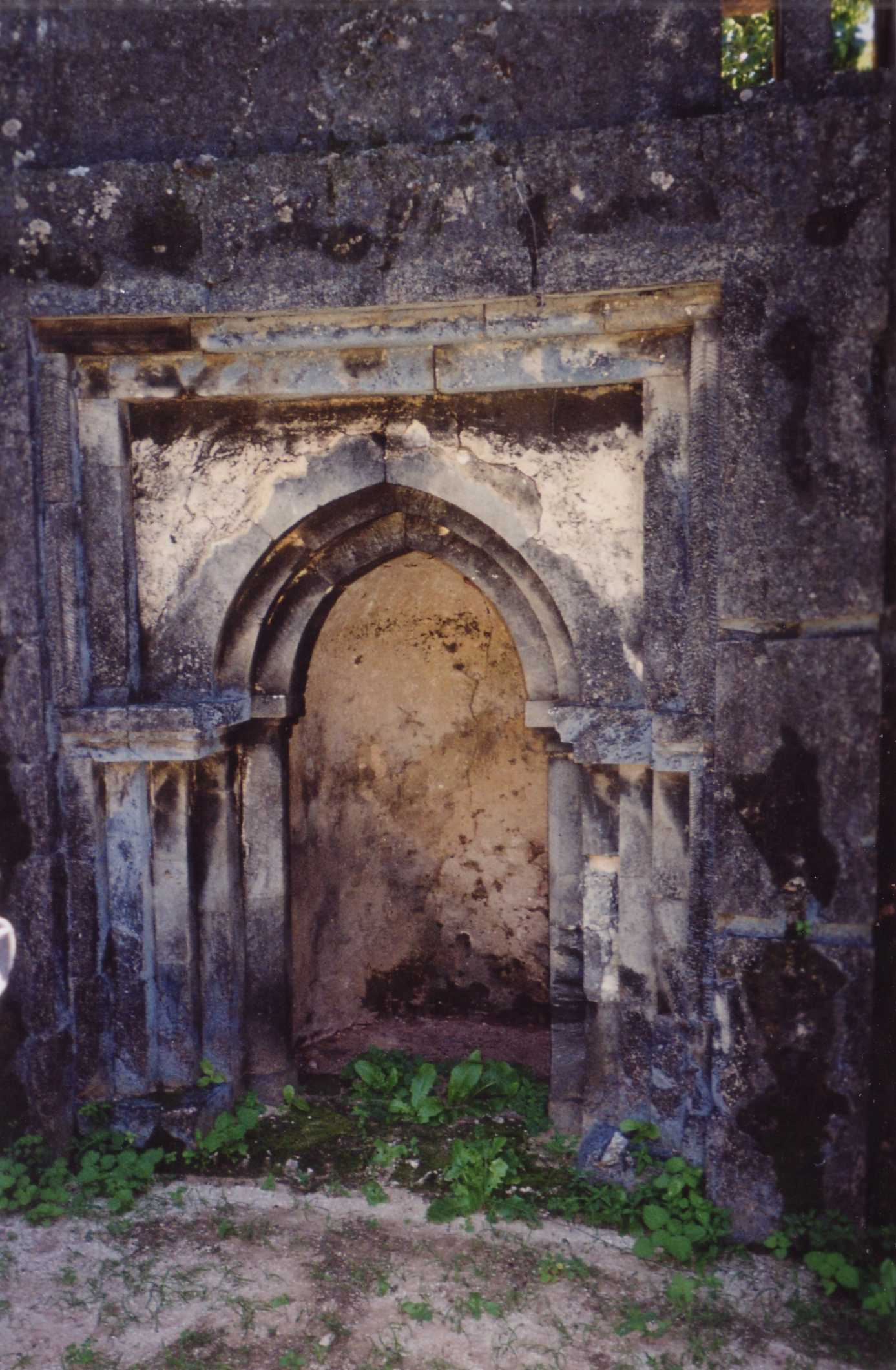 The 16th century Takwa Ruins on Manda Island, photo of doorway